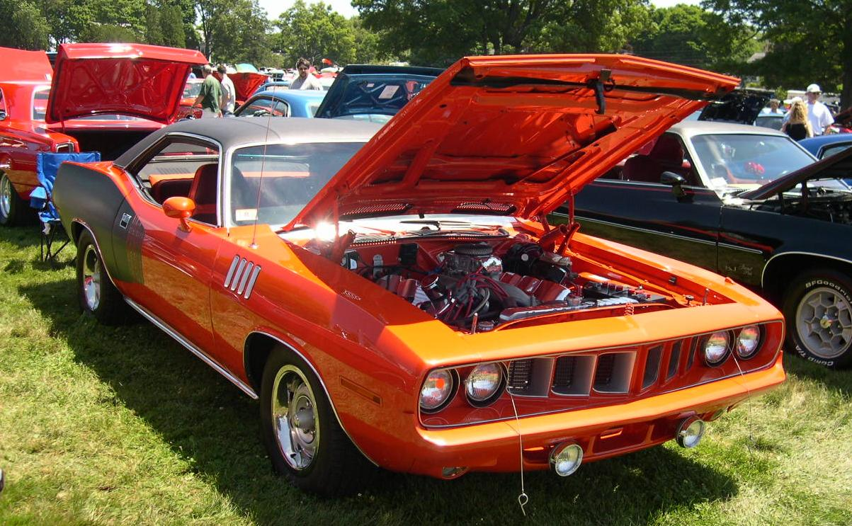 1971 Plymouth Hemi 'Cuda Source: Photographed at the Bay State Antique Automobile Club's July 10, 2005 show at the Endicott Estate in Dedham, MA by User:Sfoskett